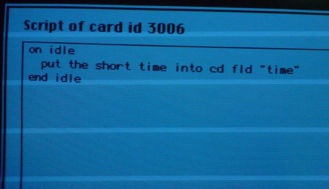 HyperTalk source code sample screenshot.